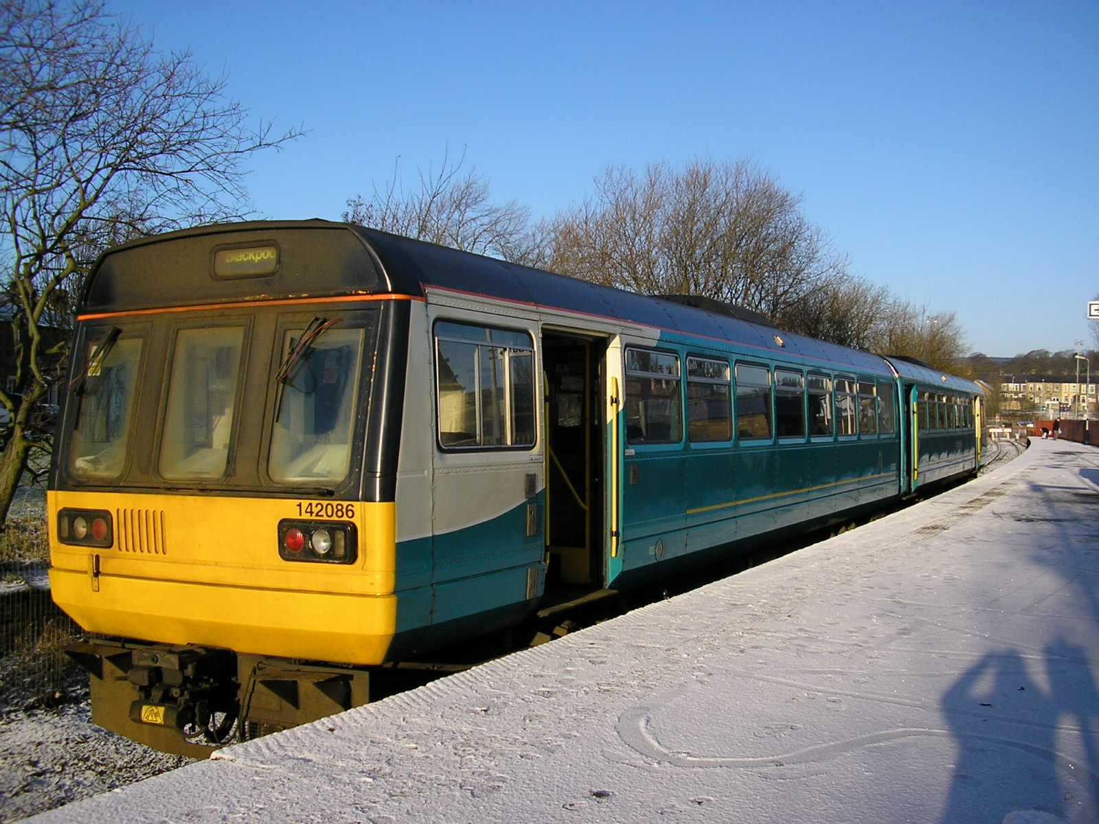 Colne railway station. The 11:00 Northern Rail service to Blackpool South is waiting.